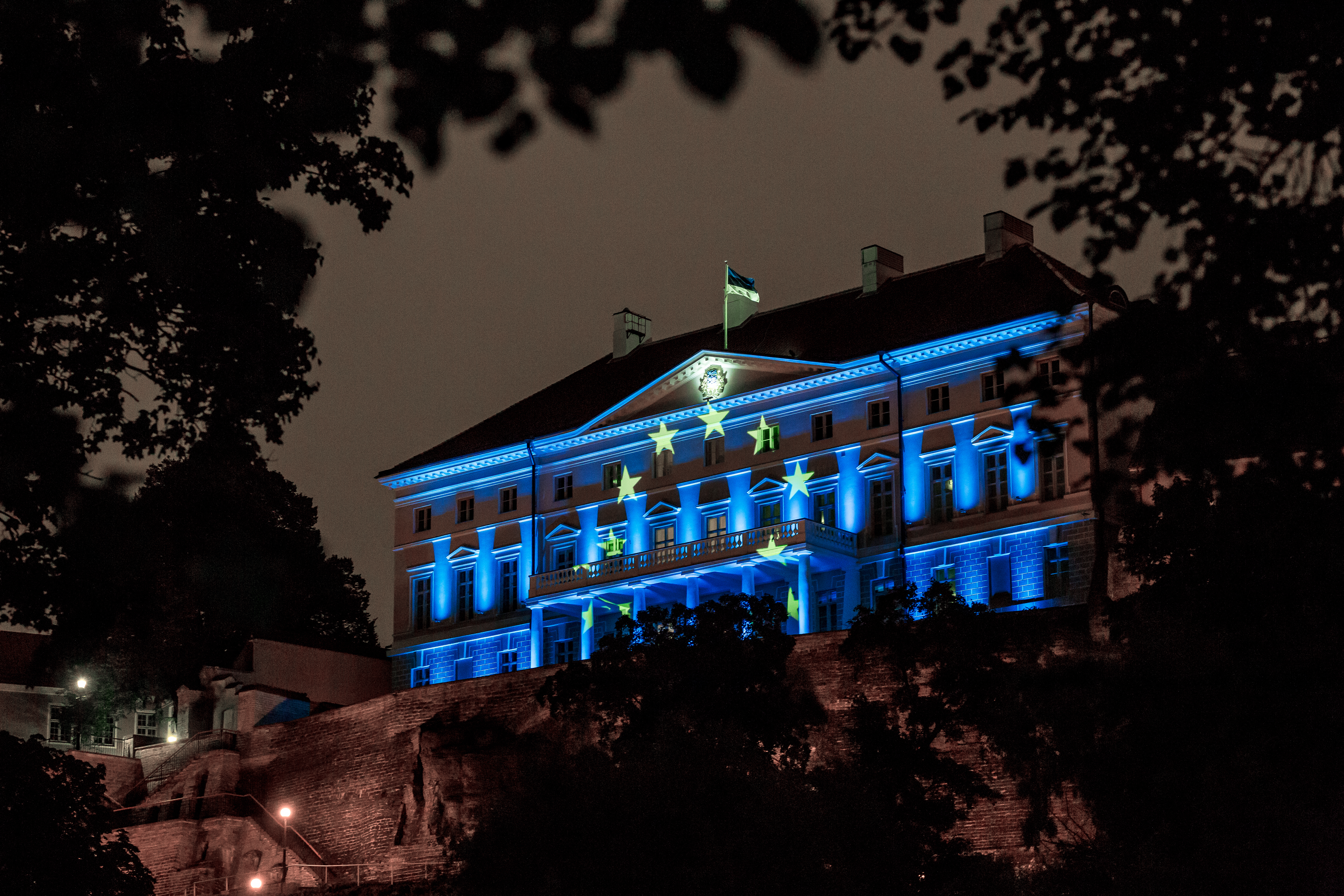 Photo: Aron Urb (EU2017EE)